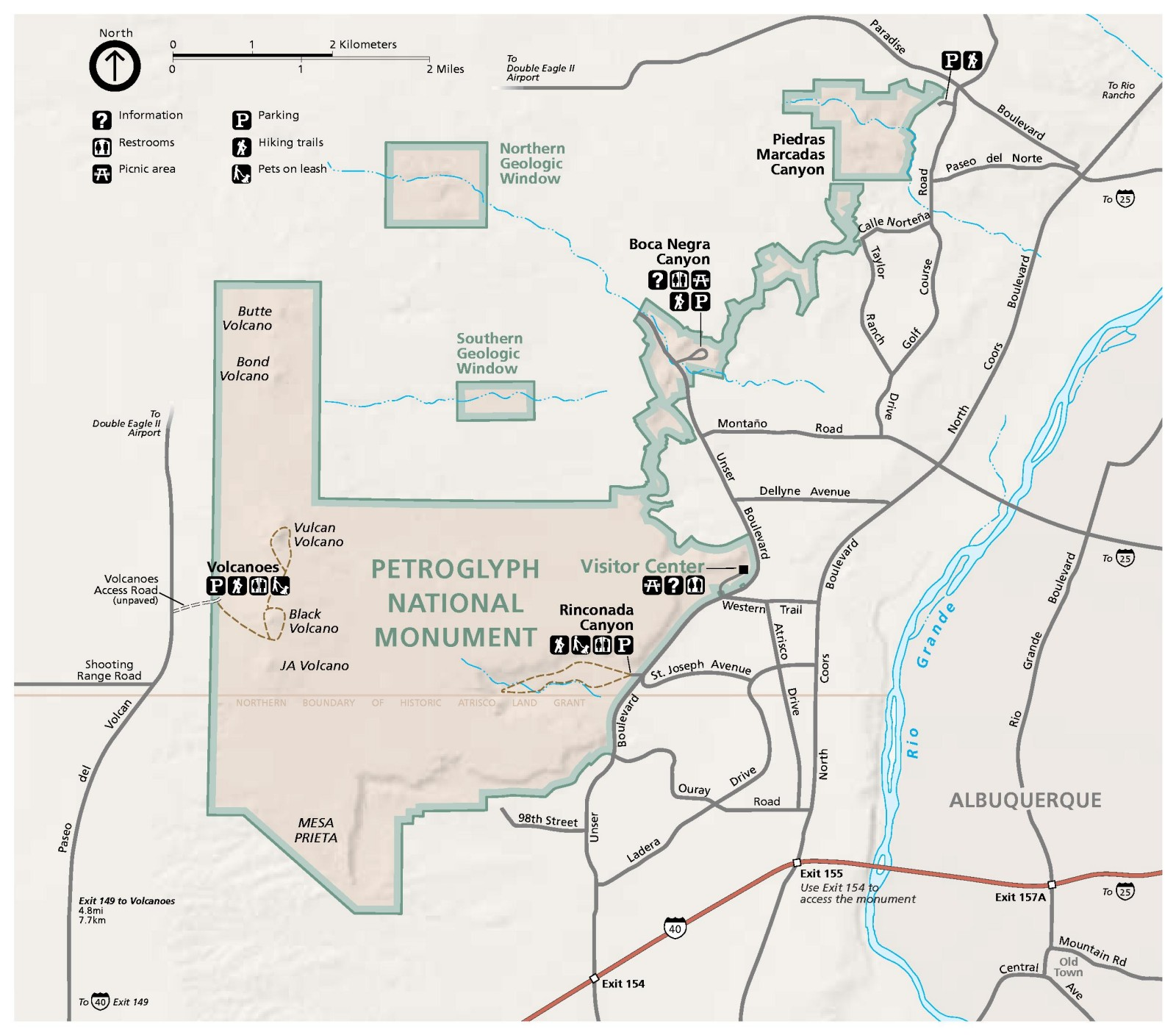 Map of Petroglyph National Monument — in Bernalillo County, New Mexico, U.S. The Albuquerque Volcanic Field is within the main (southern) section of the park.